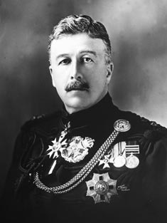 Arthur Foljambe, 2nd Earl of Liverpool (1870-1941)